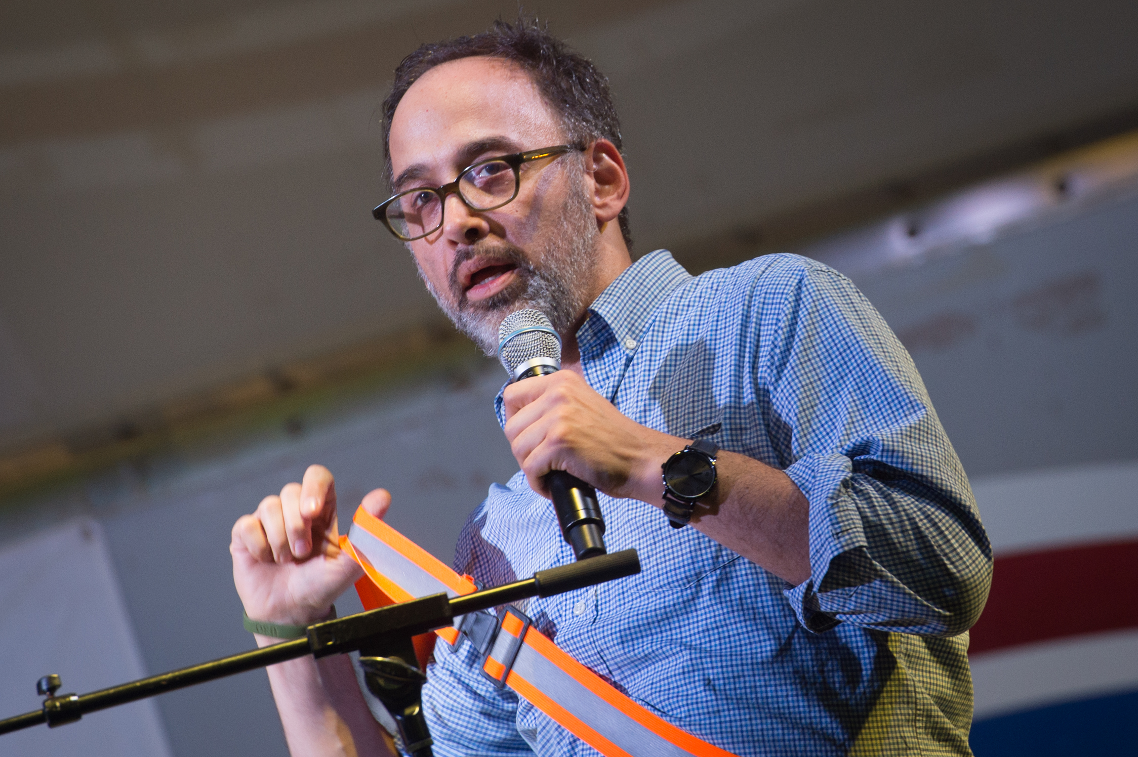 David Wain, comedian and producer, during a USO show for US service members deployed at Camp Lemonnier, Djibouti on Dec 6, 2015.